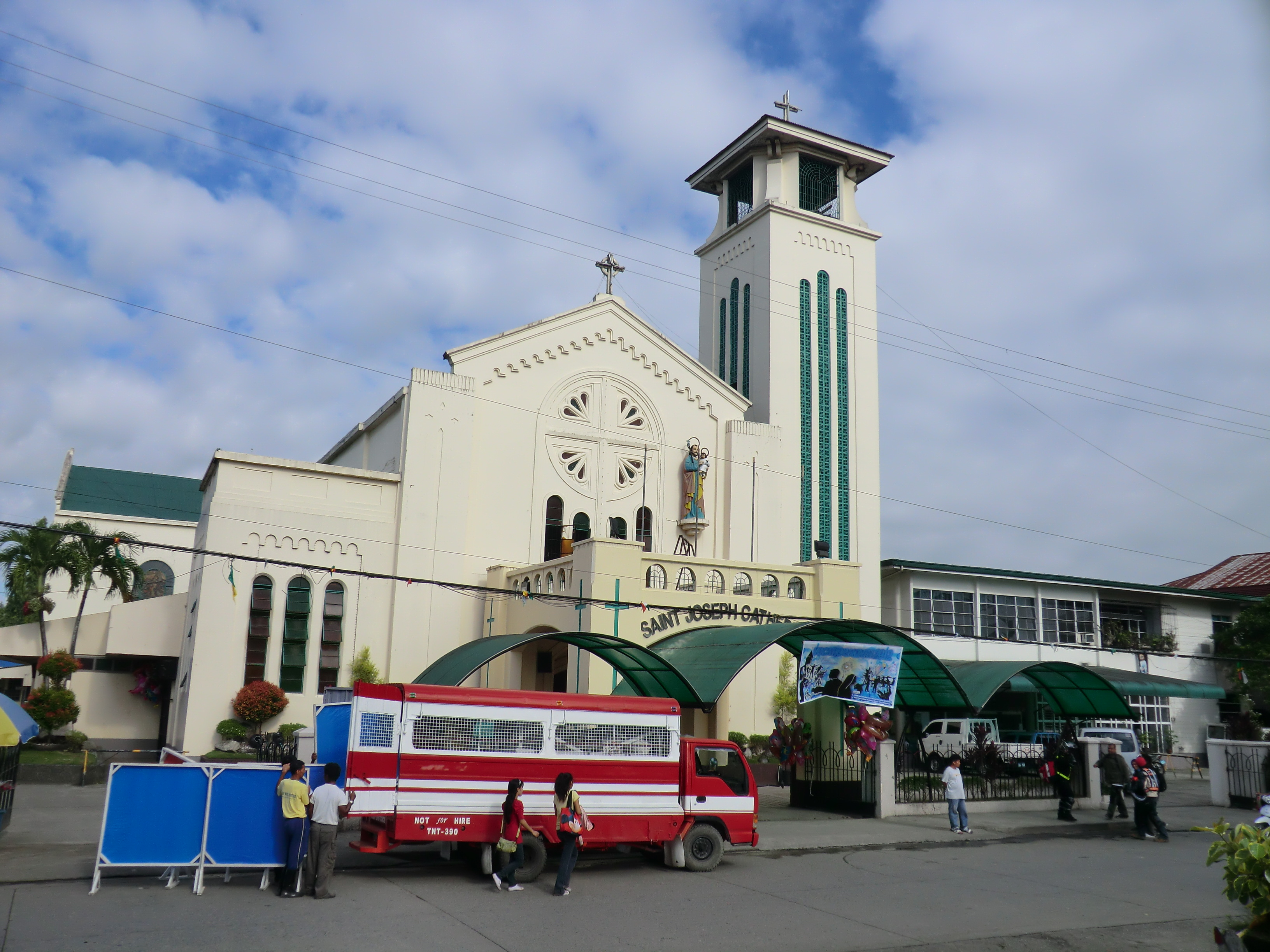 St Joseph Cathedral, Butuan City